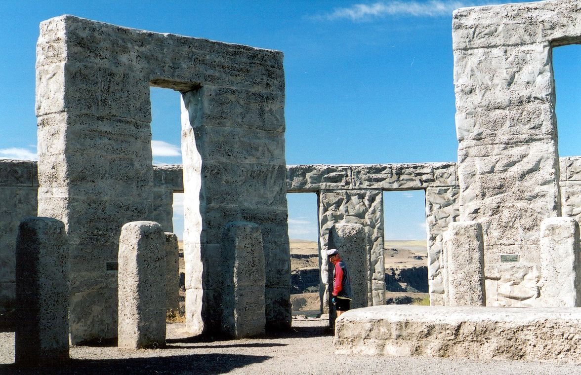 The Maryhill Stonehenge replica in Washington State, USA, originally a project of transportation magnate Samuel Hill